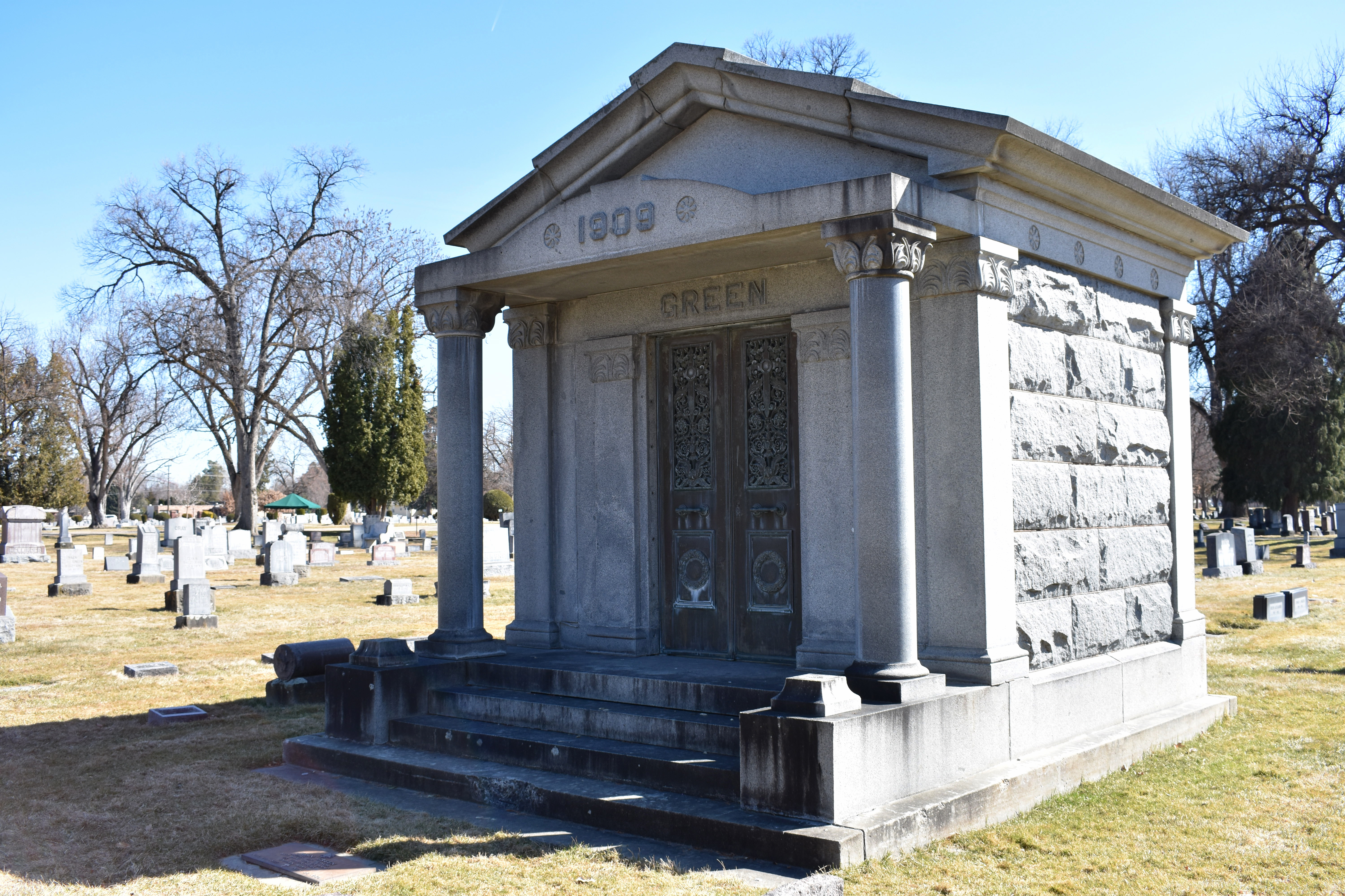 The John Green Mausoleum (1904) at Morris Hill Cemetery in Boise, Idaho, was designed by Tourtellotte & Co. and is listed on the National Register of Historic Places.